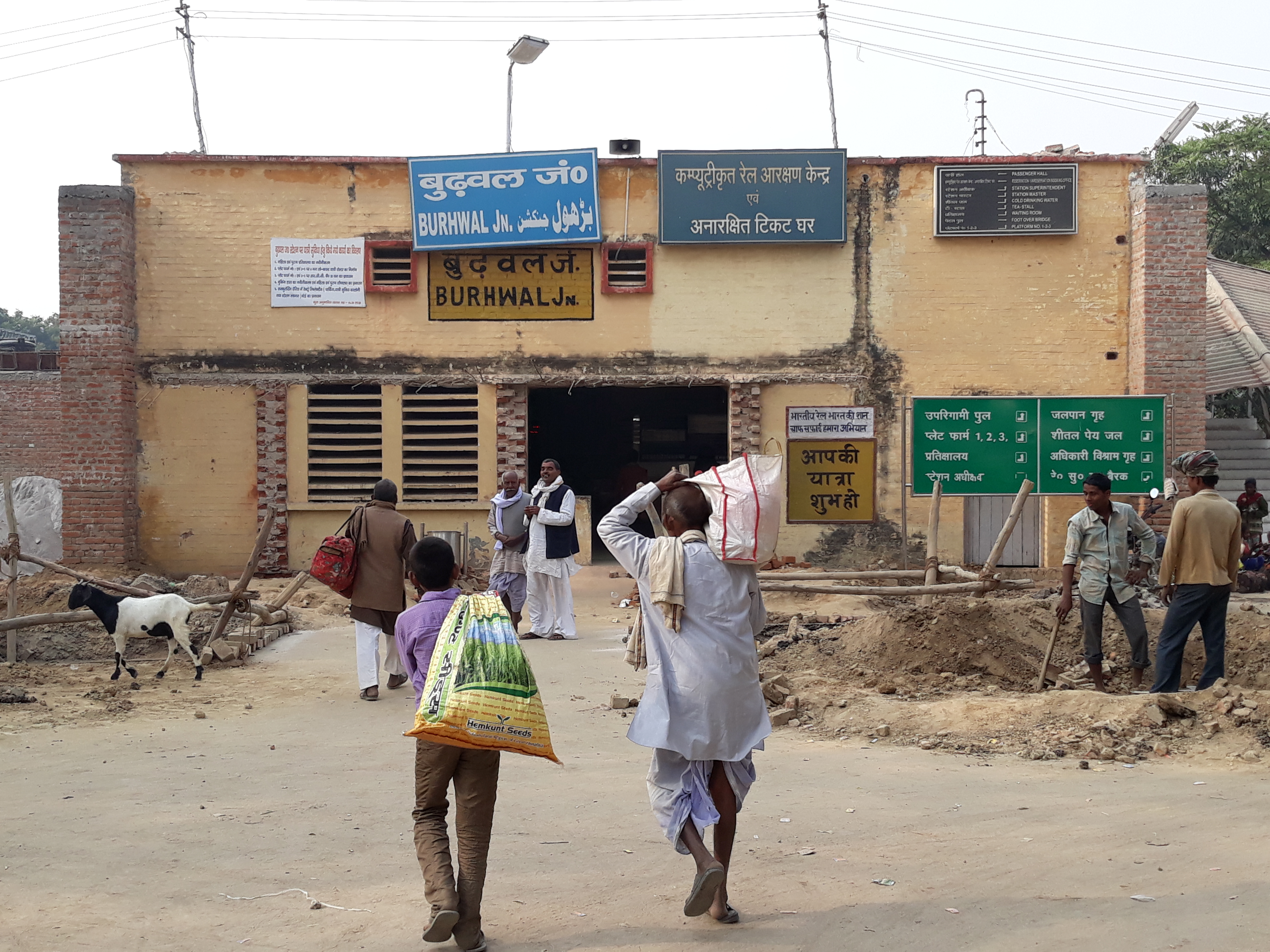 Photo of under renovation Burhwal Junction.